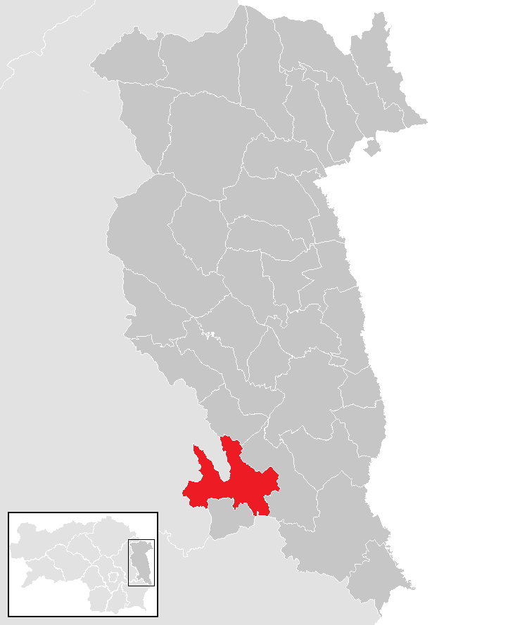 district Hartberg-Fürstenfeld